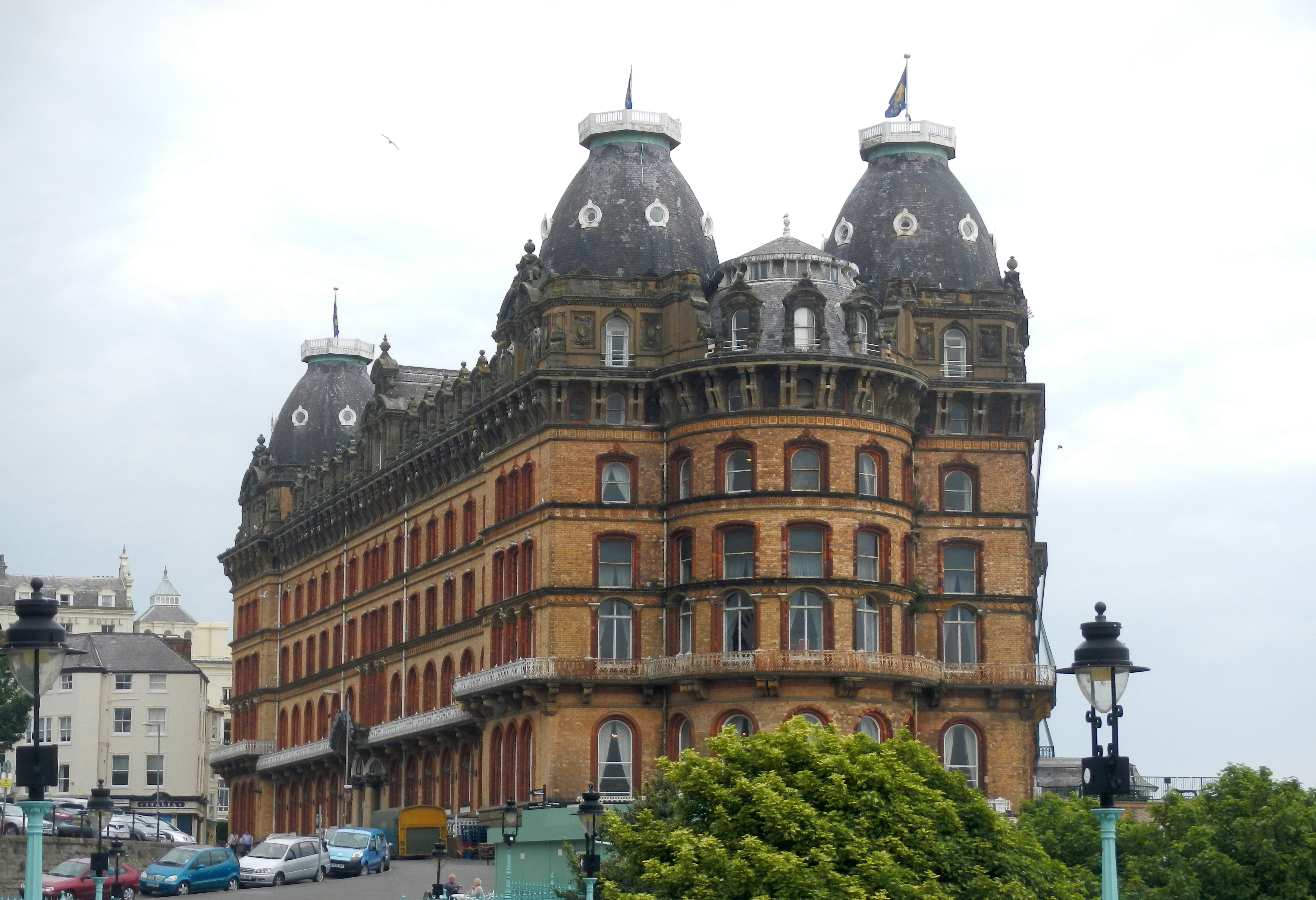 The Grand Hotel in Scarborough, North Yorkshire, England.